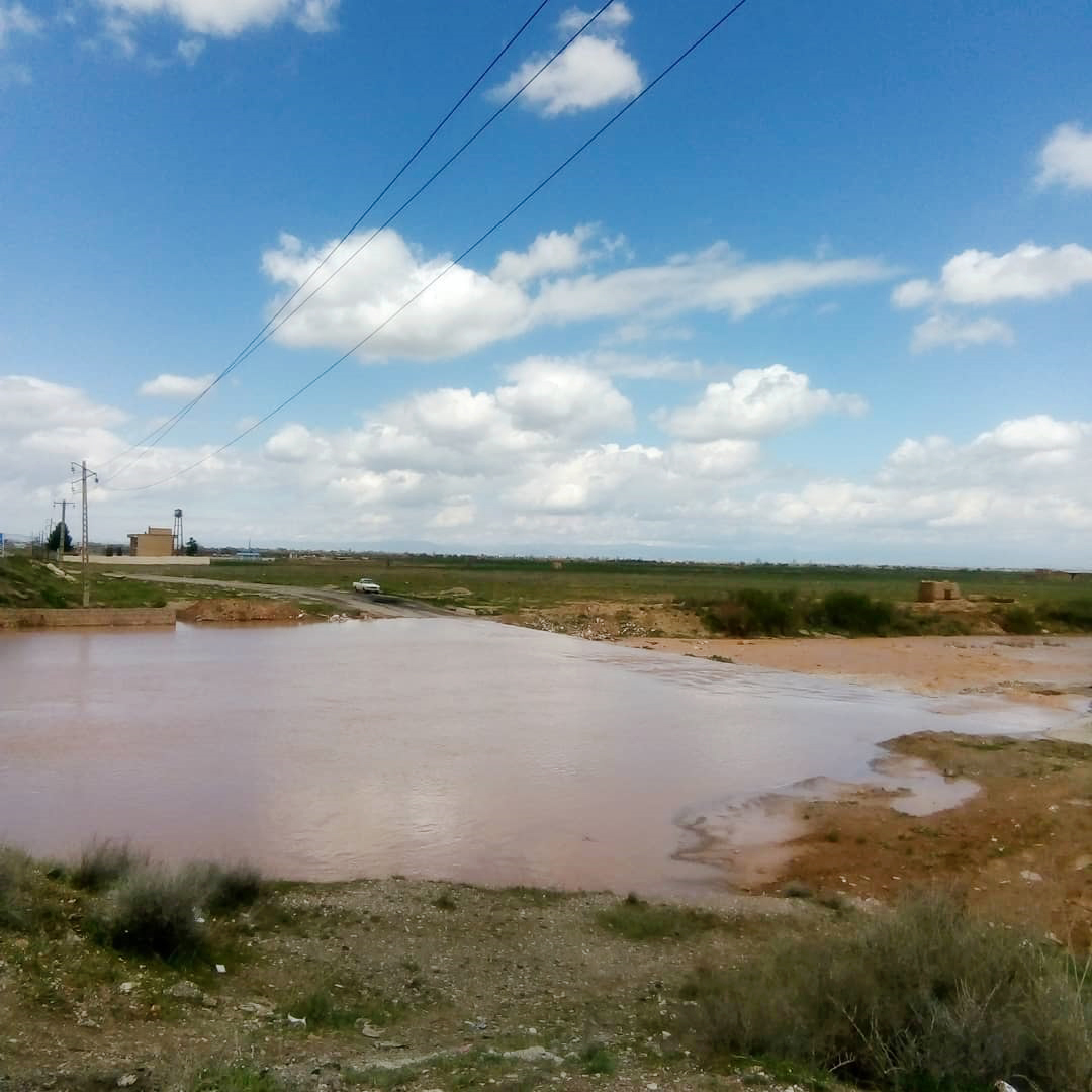 Shal, Esfarvarin, Khar River